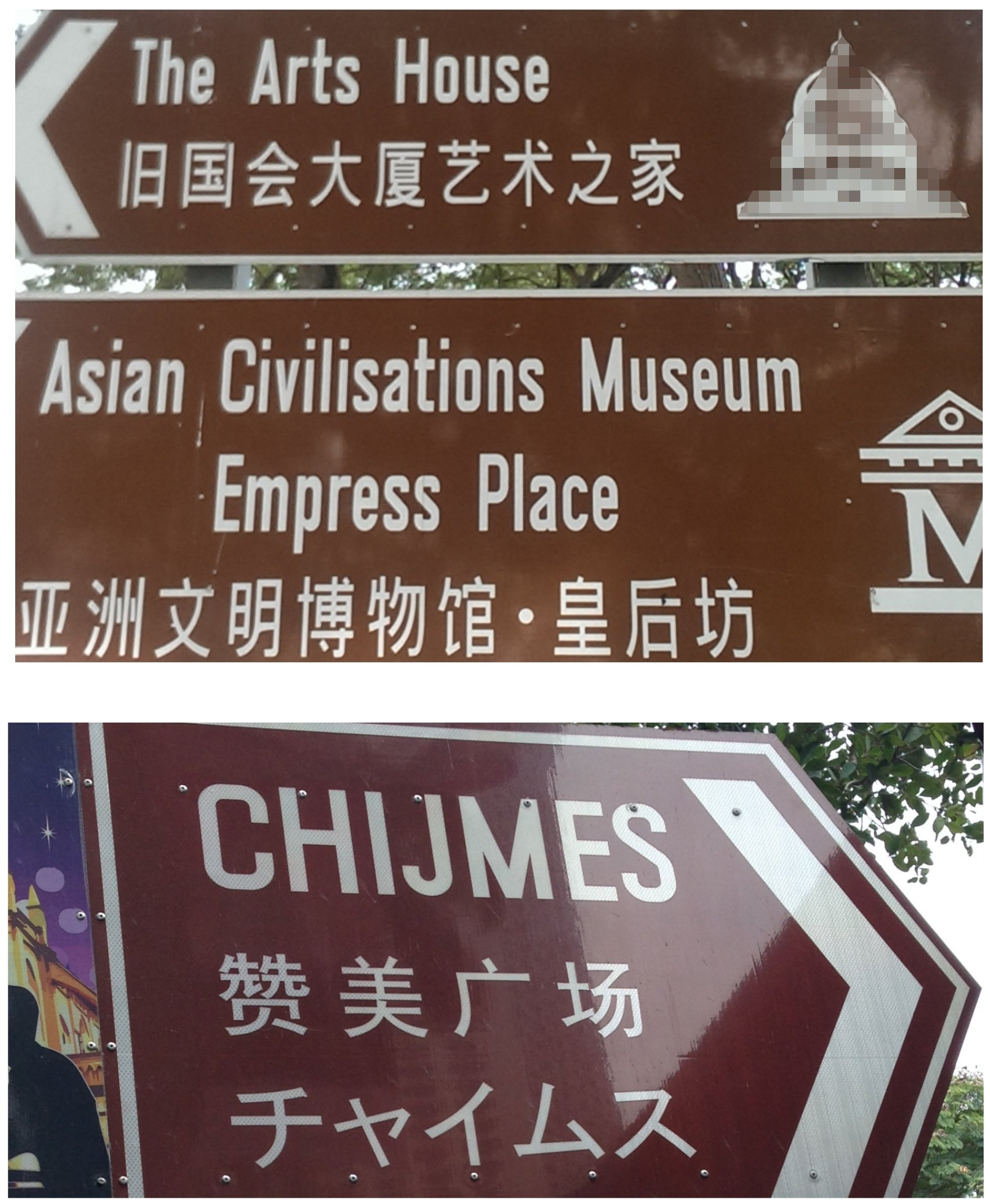 Signs to visitor attractions in the Civic District, Singapore: the Arts House at the Old Parliament, the Asian Civilisations Museum, and CHIJMES. All the signs have translations in non-English languages, but although the signs are only streets away from each other, the Arts House and Asian Civilisations Museum signs have translations into Mandarin Chinese only, whereas the CHIJMES sign has translations into both Mandarin Chinese and Japanese.